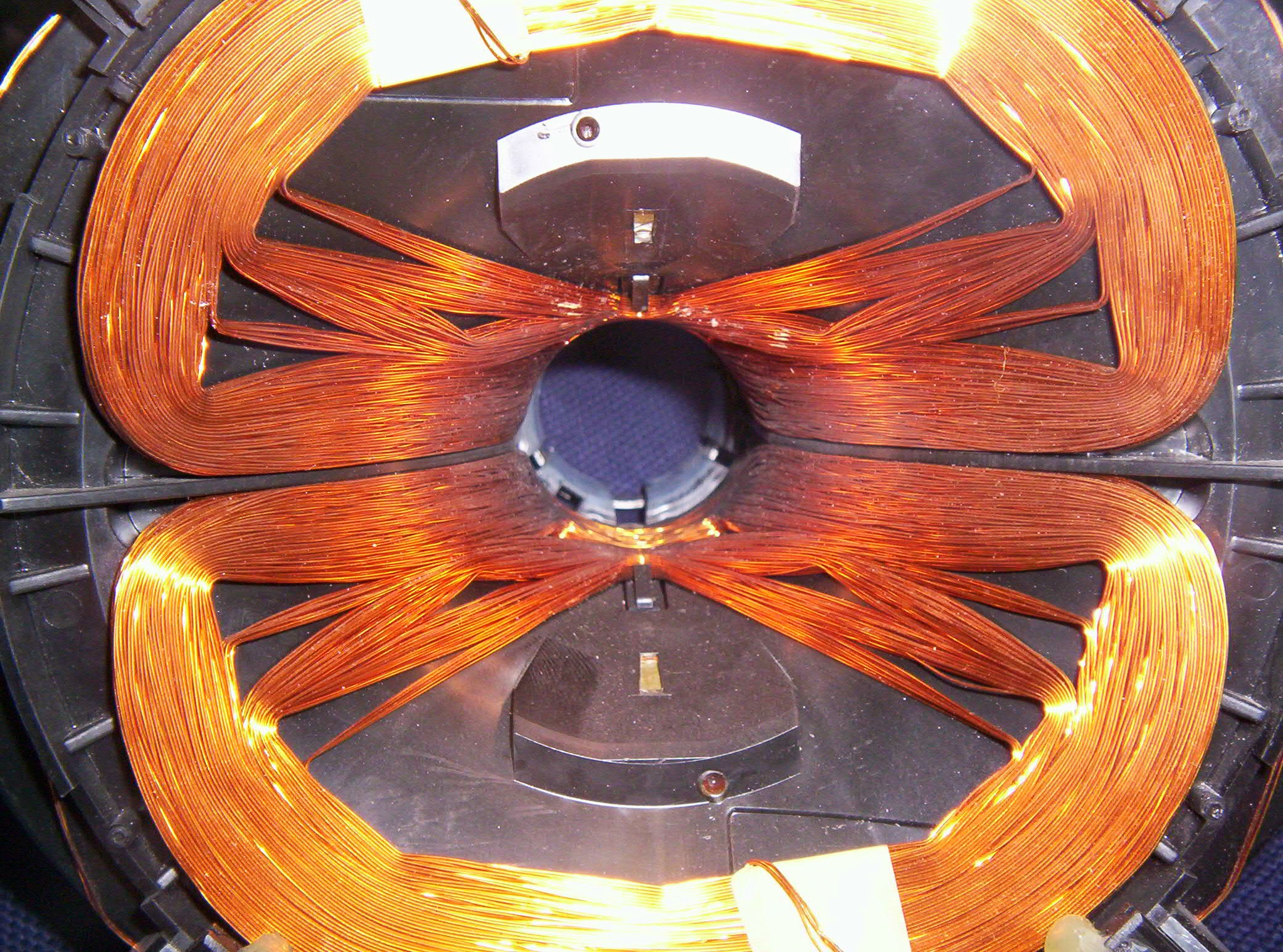 Deflection coils surrounding the picture tube in a cathode ray tube (CRT) type television set. Looking toward the cathode end (rear), the neck of the CRT passes through the hole in center. The deflection coils create an increasing magnetic field which bends the beam of electrons from side to side as it passes down the neck of the tube, sweeping the beam across the screen.